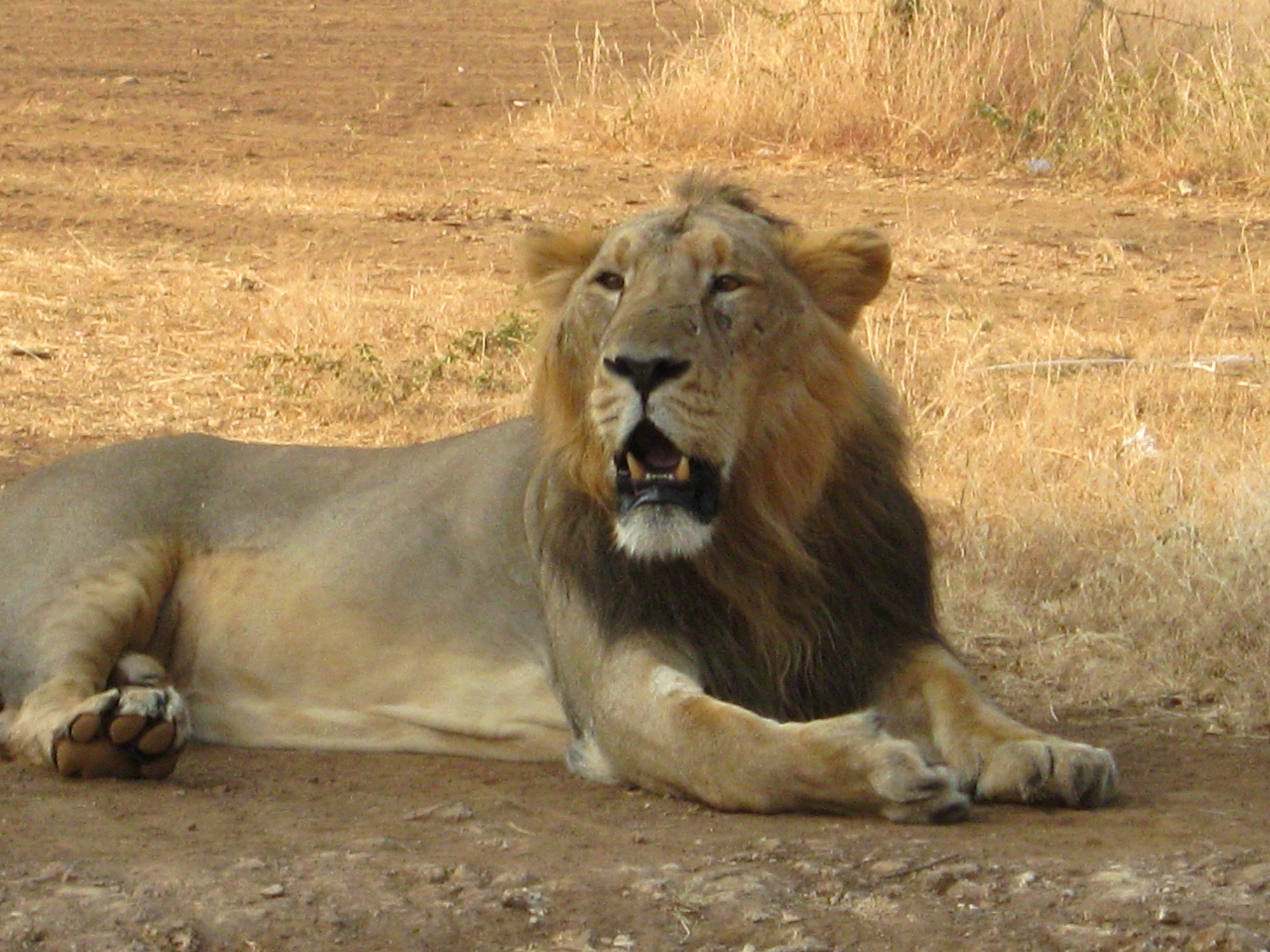 This photograph is taken by Nikunj Vasoya during his visit to Gir Forest